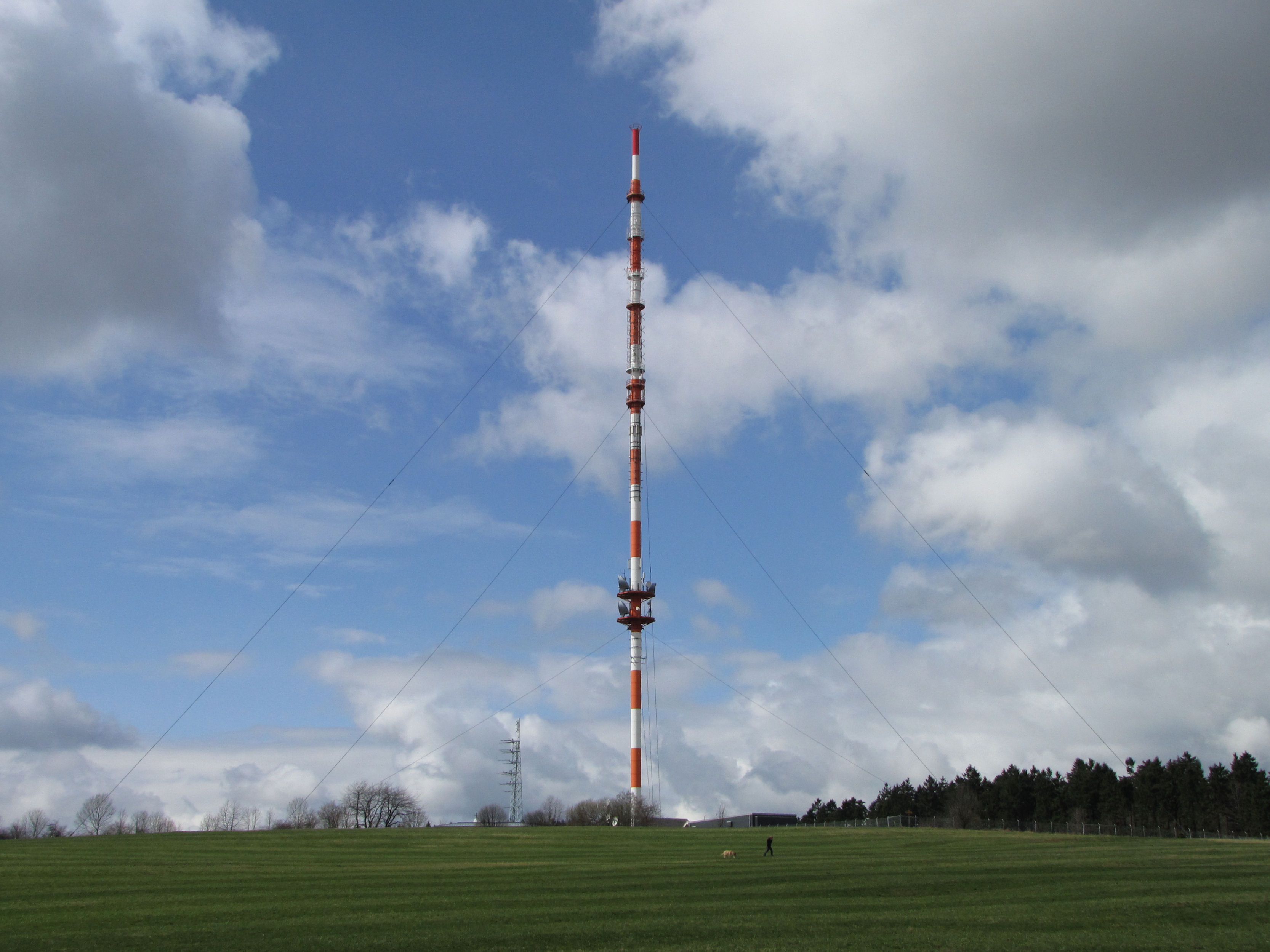 Transmitter Bad Marienberg